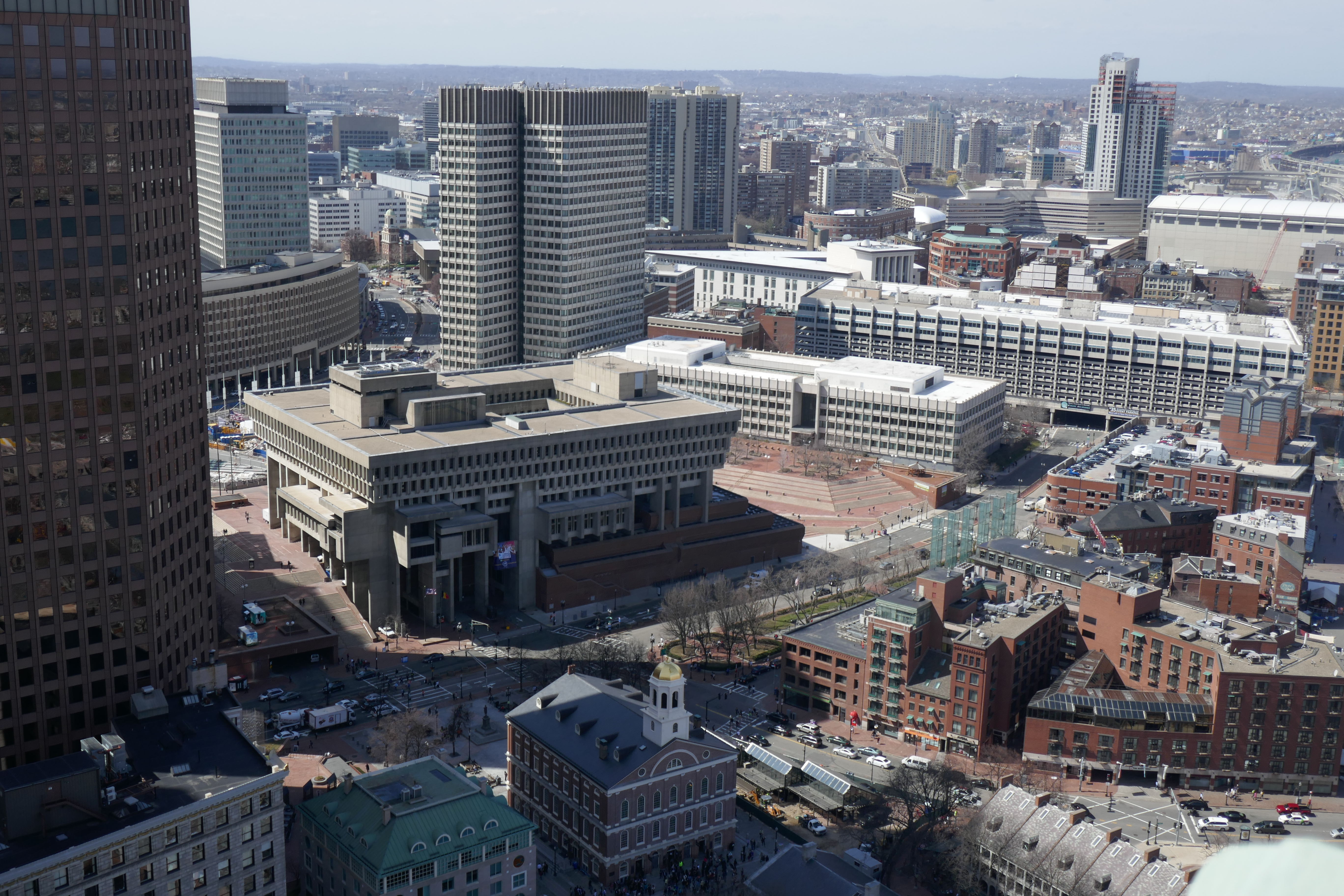 Aerial view of Government Center Boston from Custom House Tower